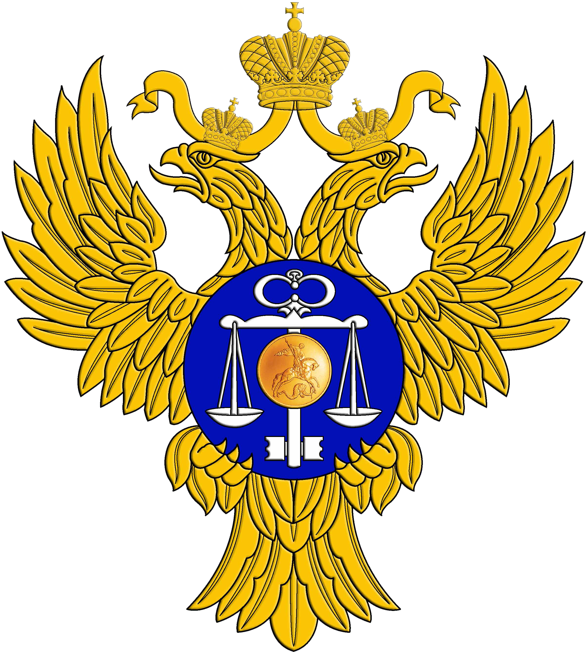 Heraldic sign-emblem of the Treasury of Russia